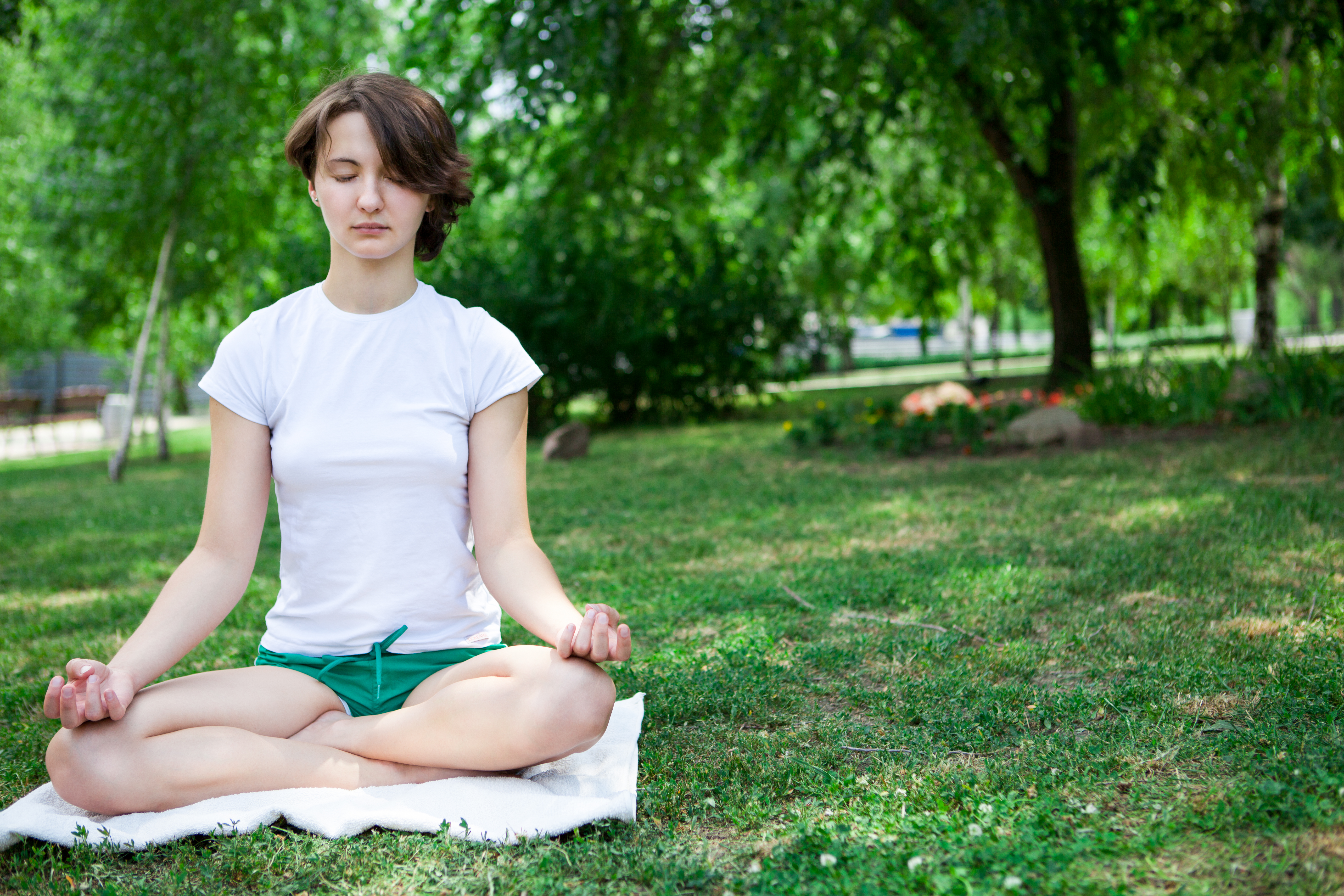 A girl meditating Any intense effort of reflection, meditation is called Tapasya, Dhyana Sanskrit Dhyana (ध्यान) means deep attention, to meditate, to contemplate For Sanskrit meaning